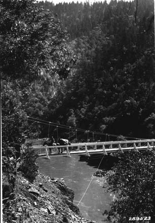 Trail Bridge across RR near China Gulch, slowing north end of the bridge.